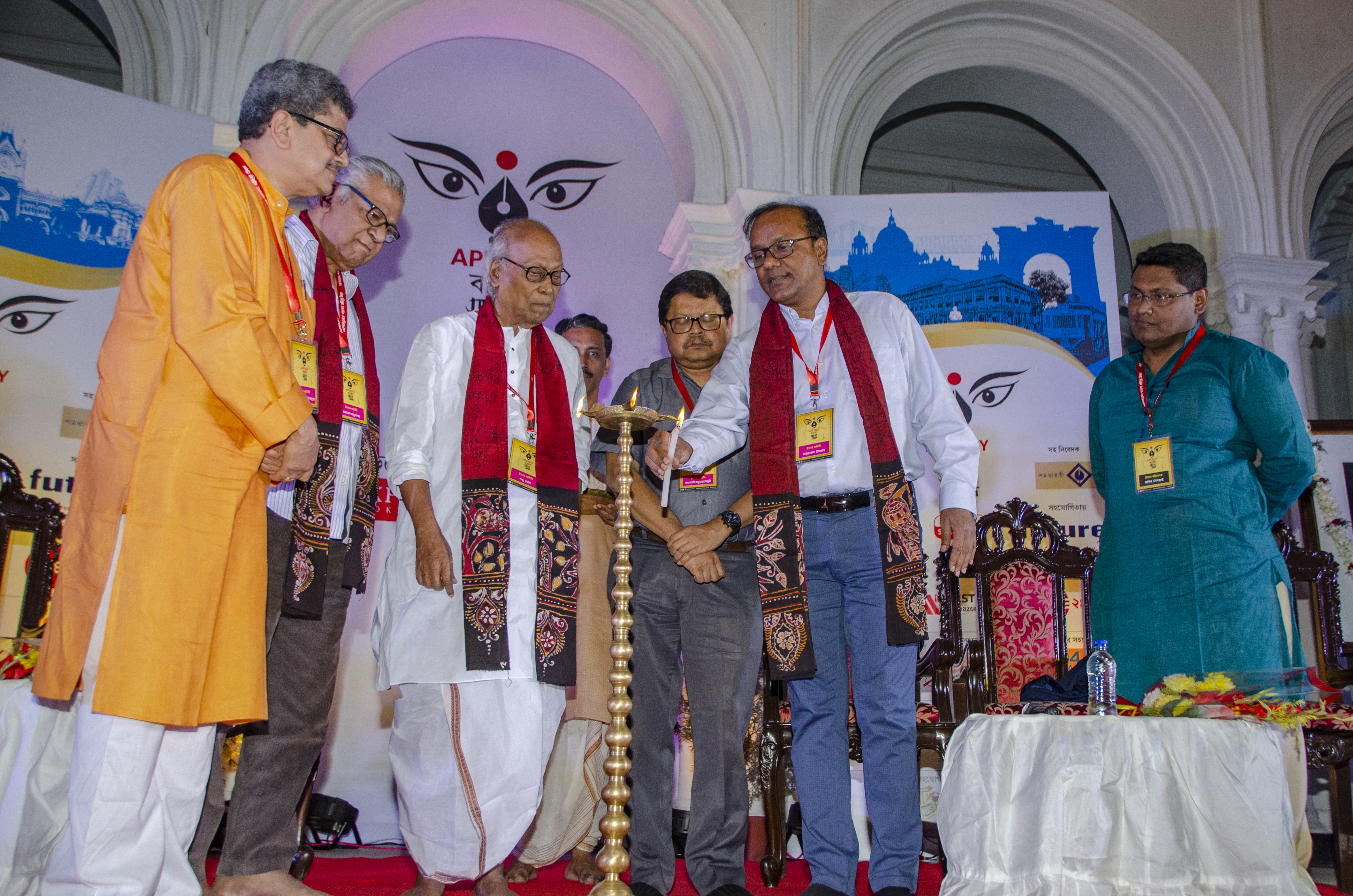 Apeejay Bangla Sahitya Utsob 2018 Inauguration Ceremony